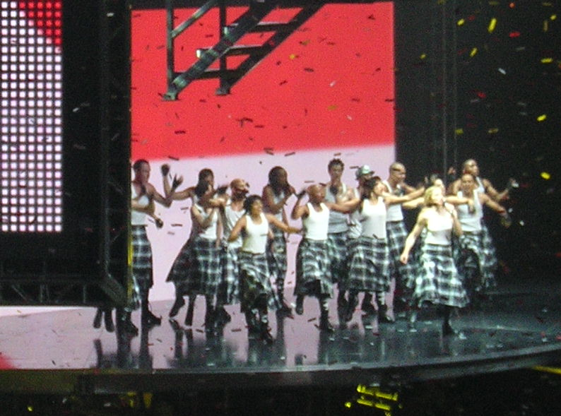 Madonna performing "Holiday"